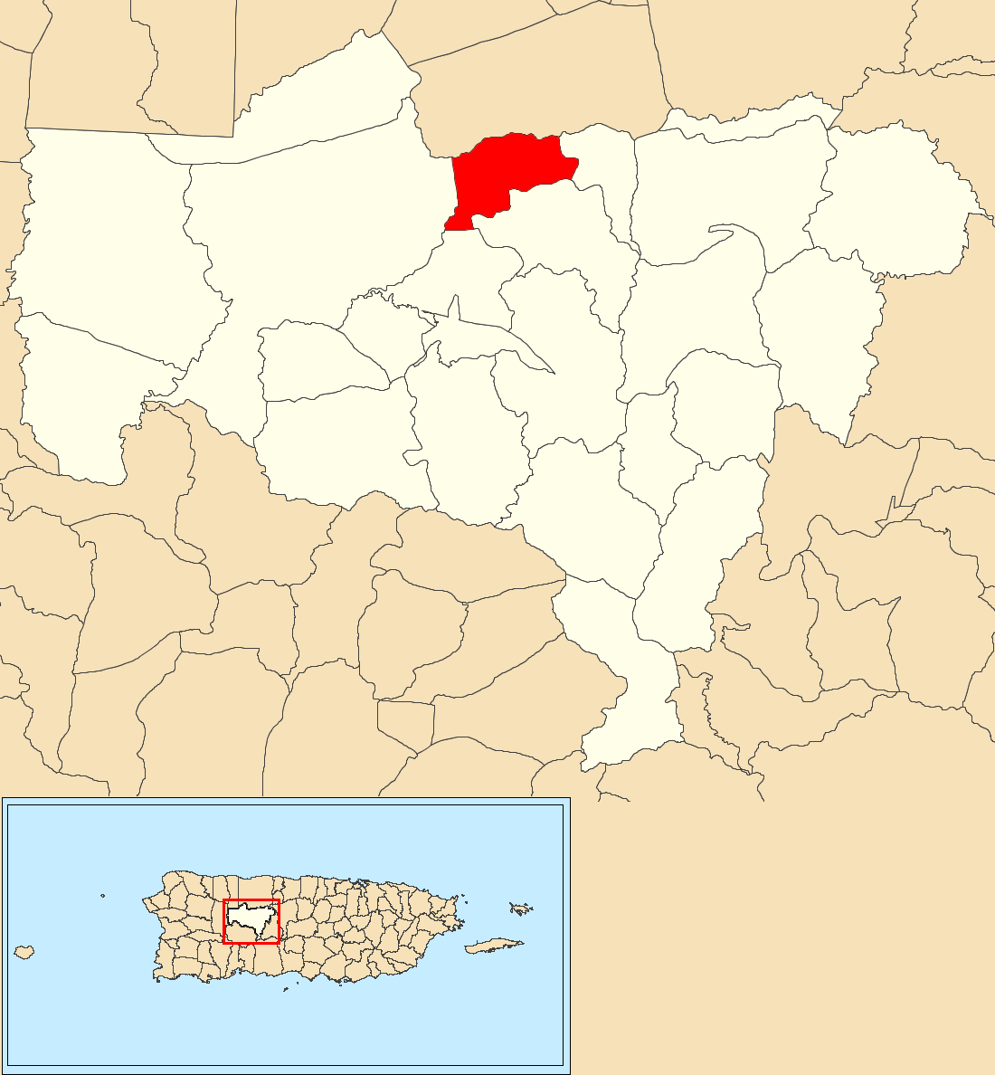 Río Abajo, Utuado, Puerto Rico locator map scale is 102,000